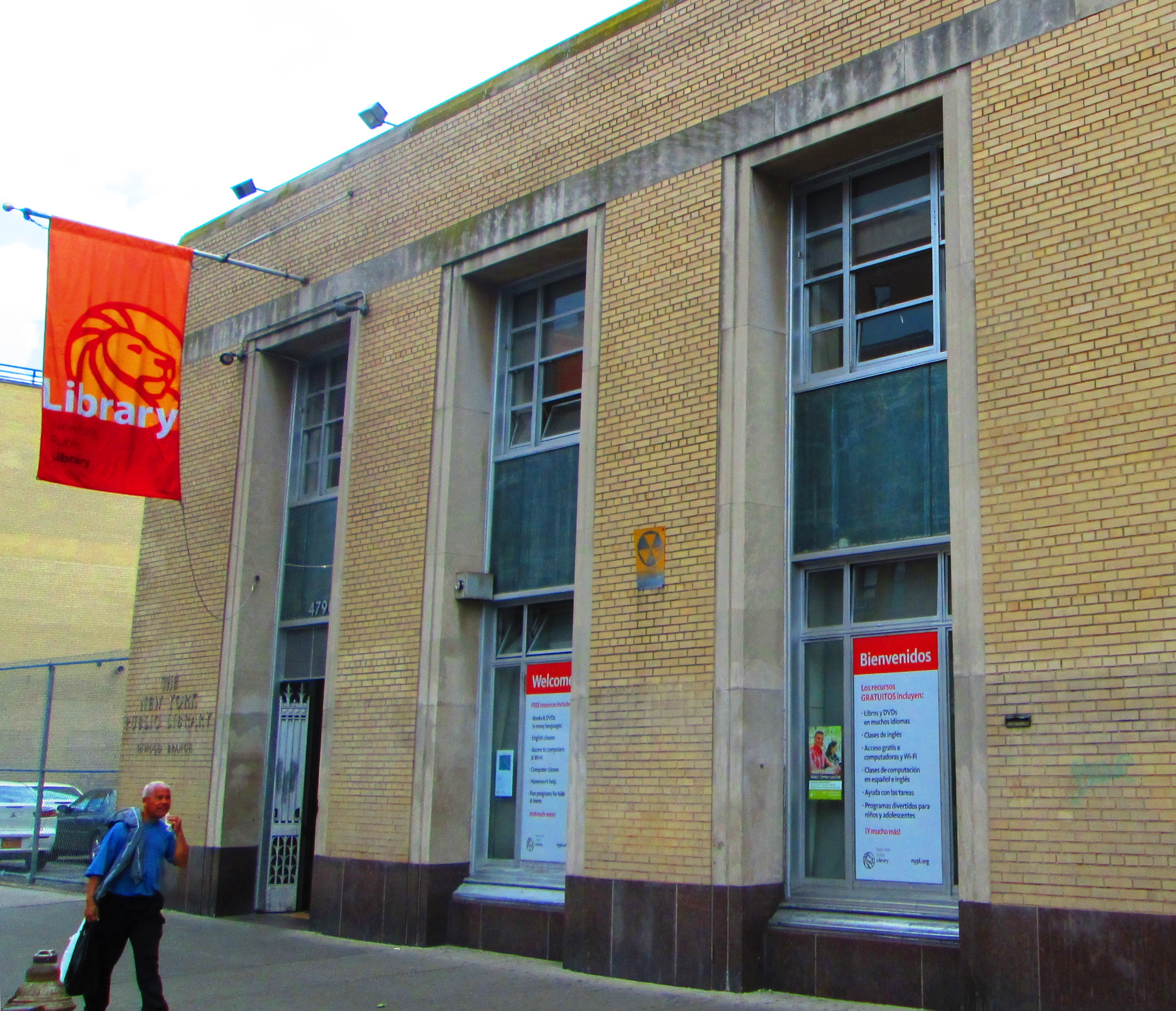 The Inwood Branch of the New York Public Library, located at 4780 Broadway between Dyckman and Academy Streets in the Inwood neighborhood of Manhattan, New York City, was built in 1959. (Source: NYC GIS map)